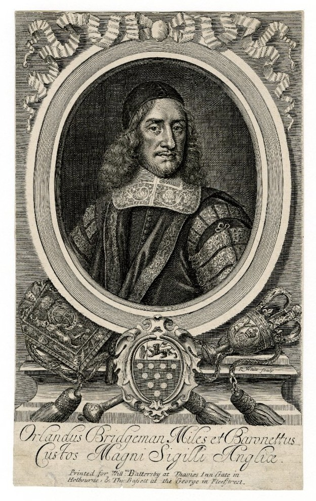 "Orlandus Bridgeman Miles et Baronettus Custos Magni Sigilli Angliae" ("Keeper of the Great Seal of England") engraving, portrait of Sir Orlando Bridgeman, 1st Baronet of Great Lever, by the English engraver Robert White. Dated 1682. 250 mm x 152 mm. Courtesy of the British Museum, London.